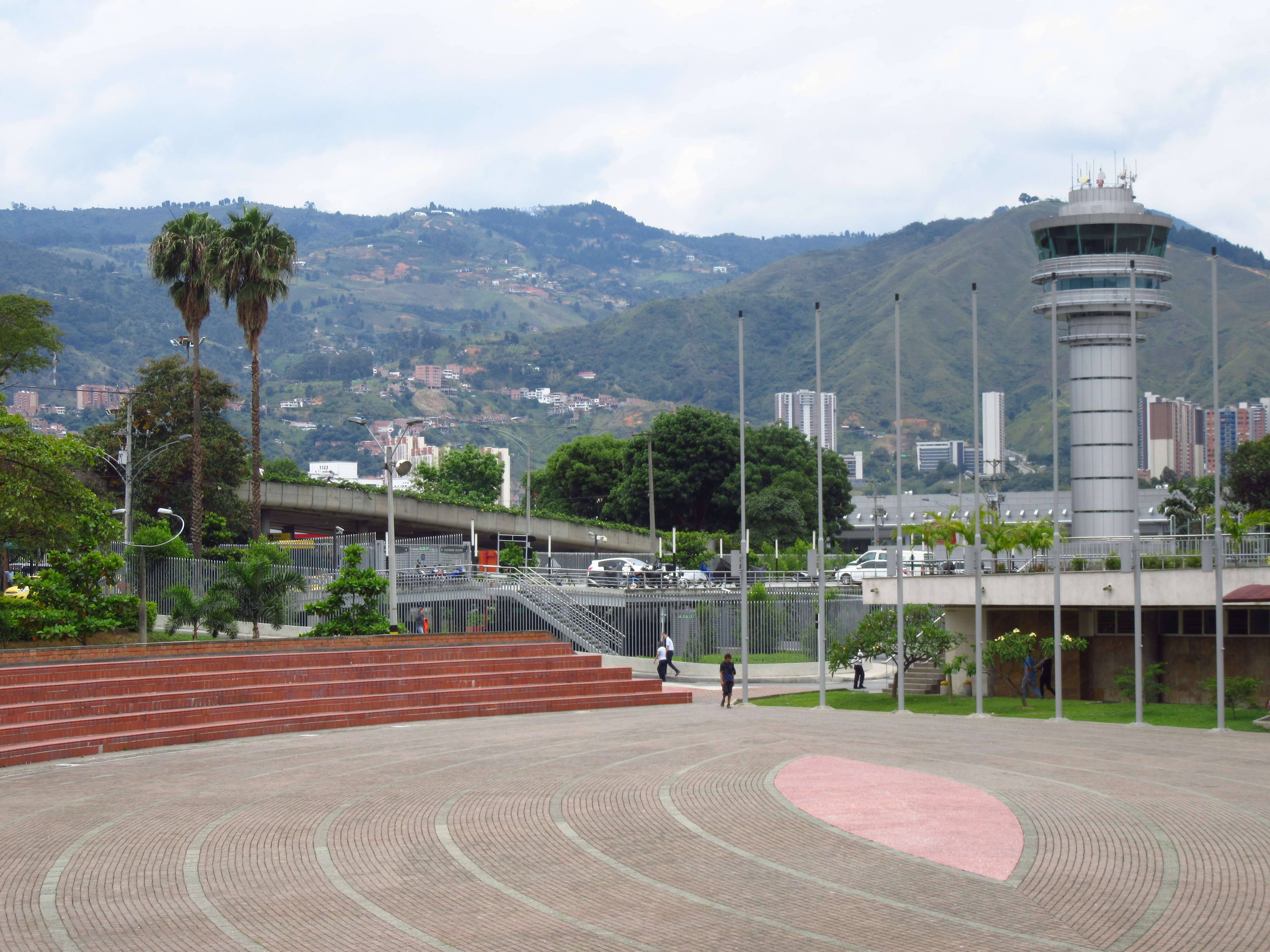 Medellín